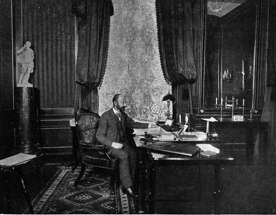 Eugen Böhm von Bawerk (1851-1914), Minister of Finance of Austria, at his office.